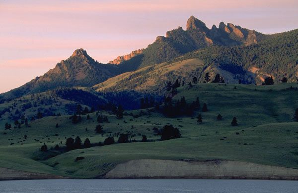 The "Sleeping Giant", formally named Beartooth Mountain, a famous and historic natural landmark in the Sleeping Giant Wilderness Study Area about 30 miles (48 km) north of Helena, Montana, in the United States.